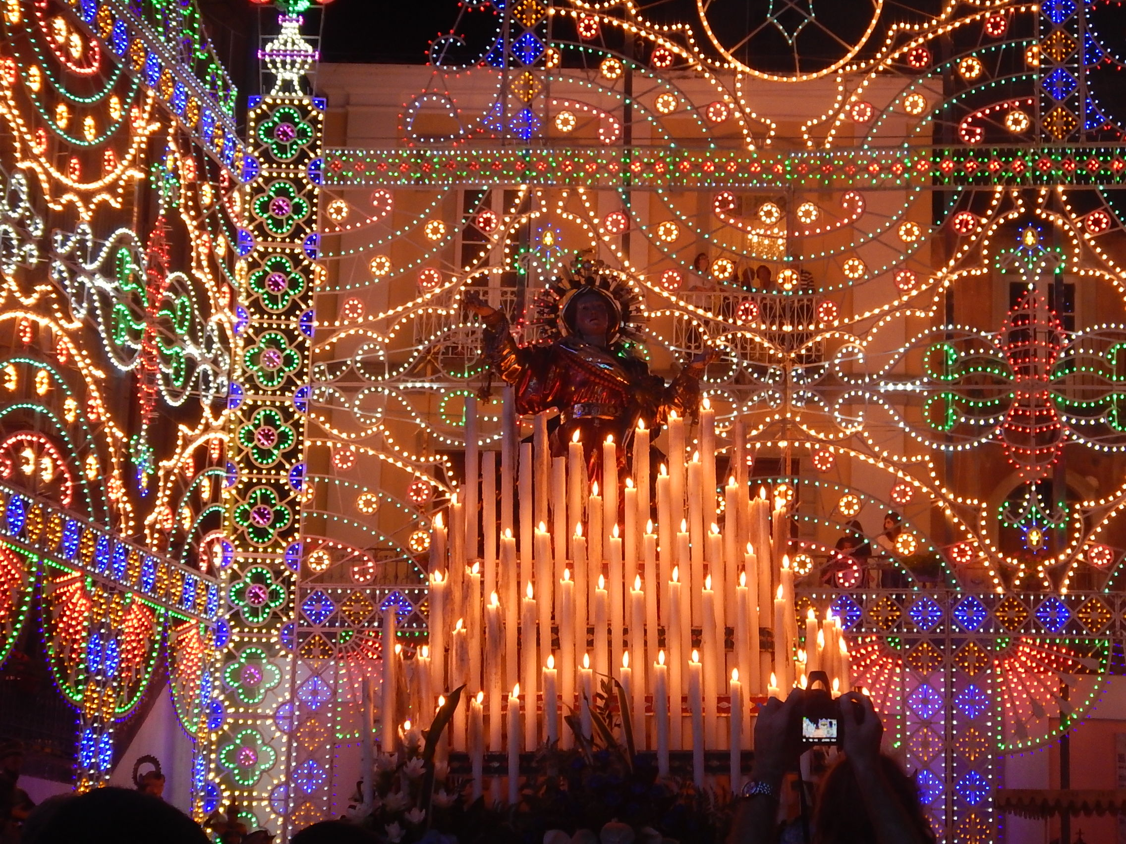 SS Maria Assunta feast in august, Novara di Sicilia